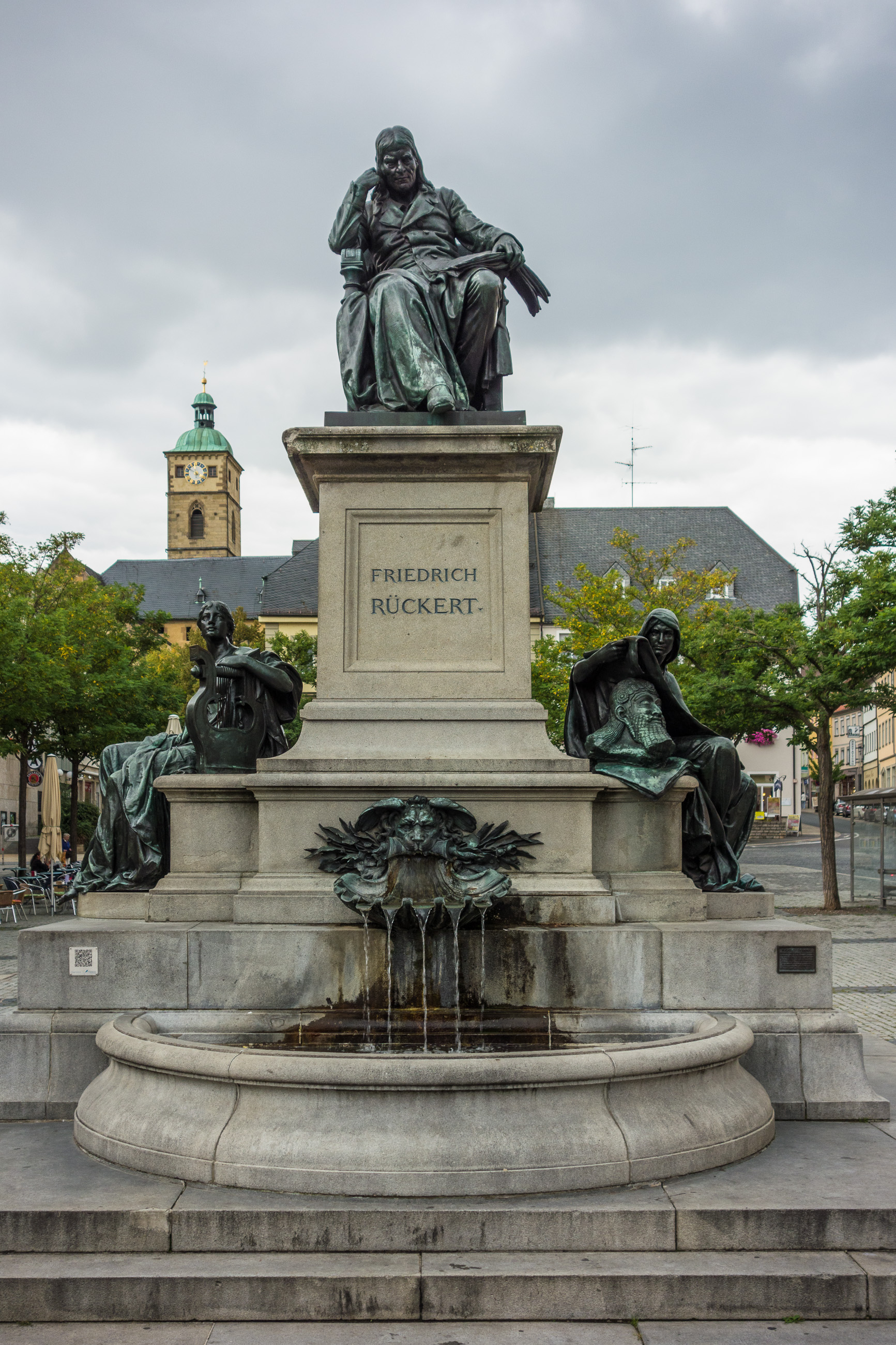 Friedrich Rückert Denkmal (Monument) in Schweinfurt, Germany.